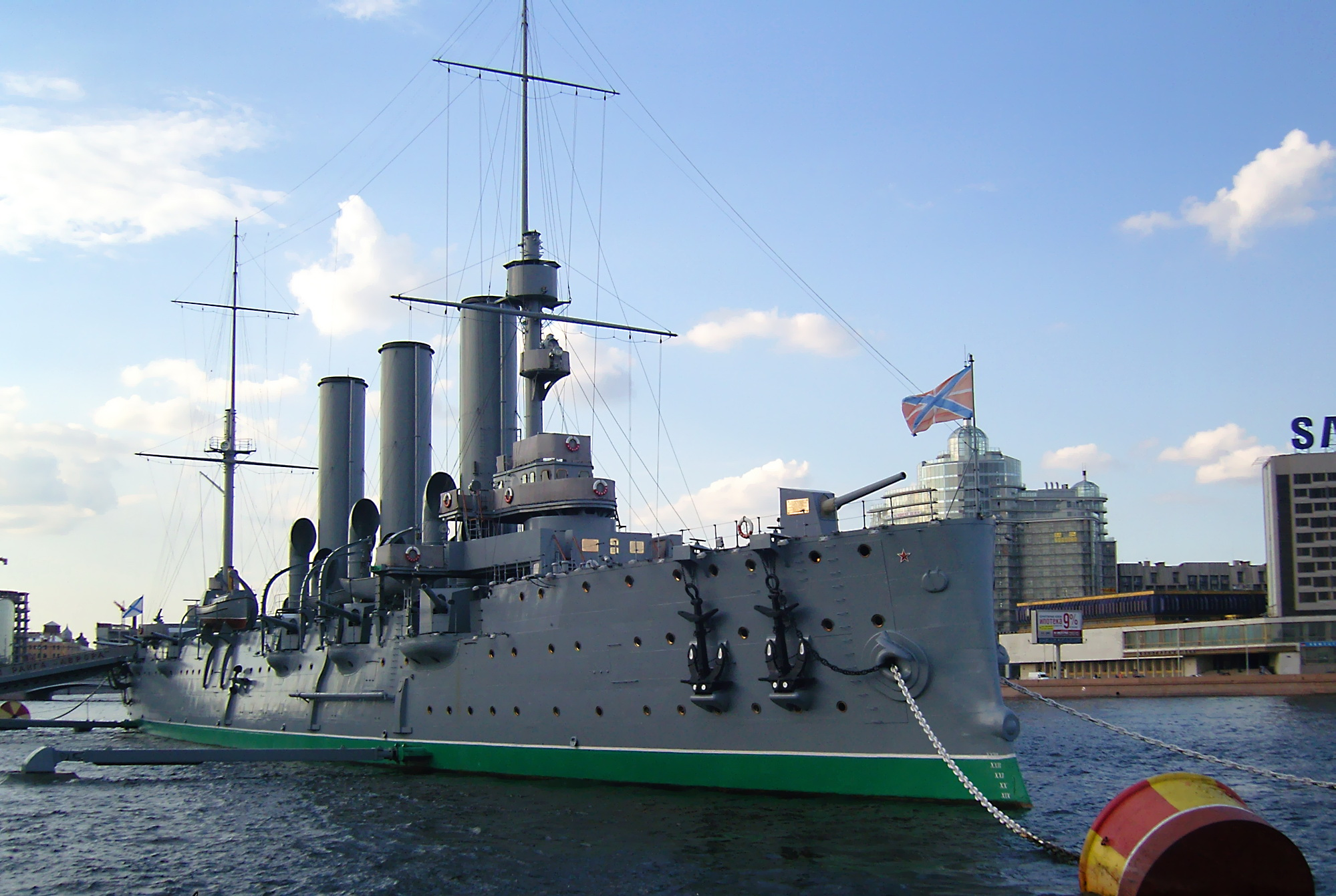 Aurora Cruiser